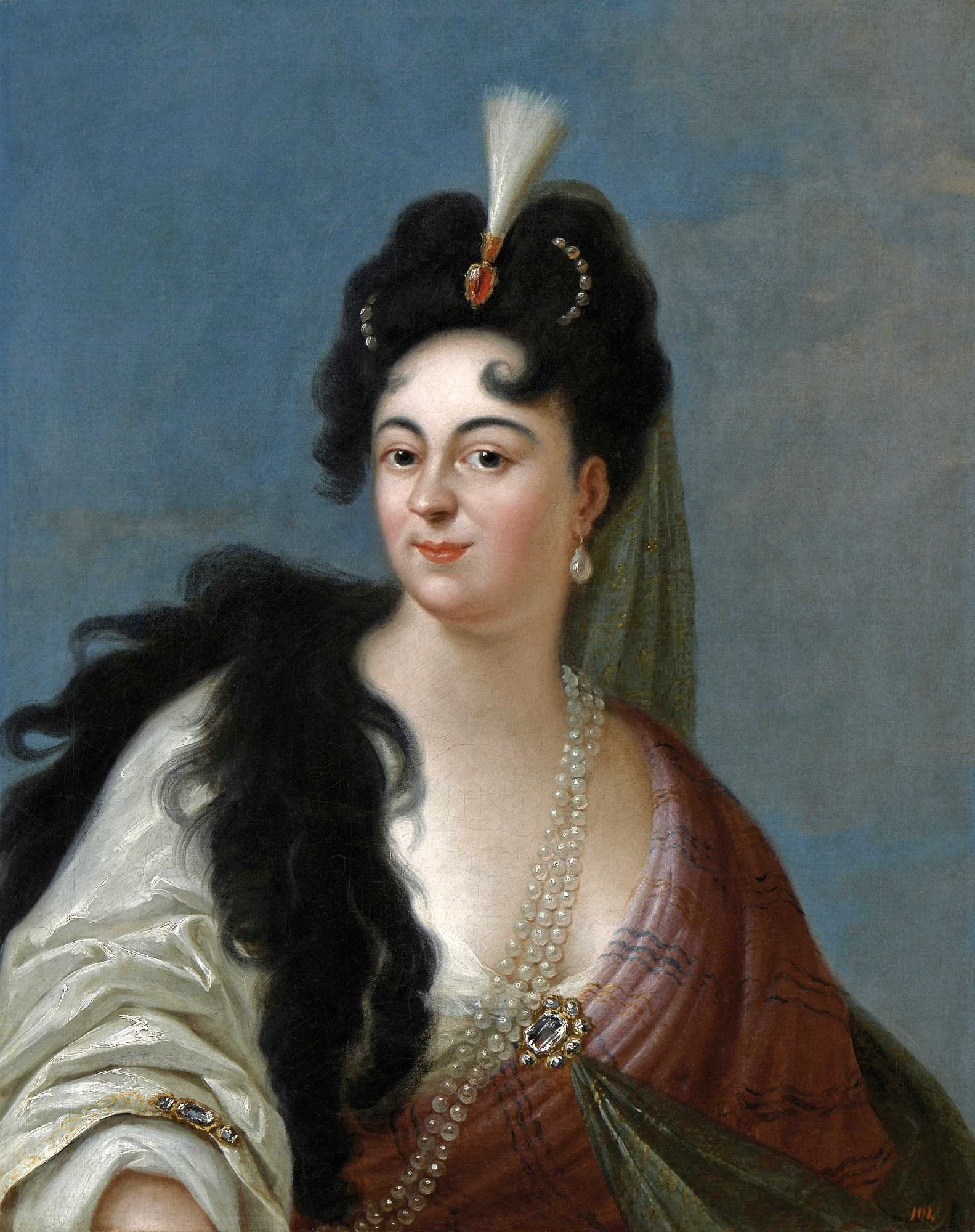 Portrait of Aurora von Königsmarck (1662-1728)